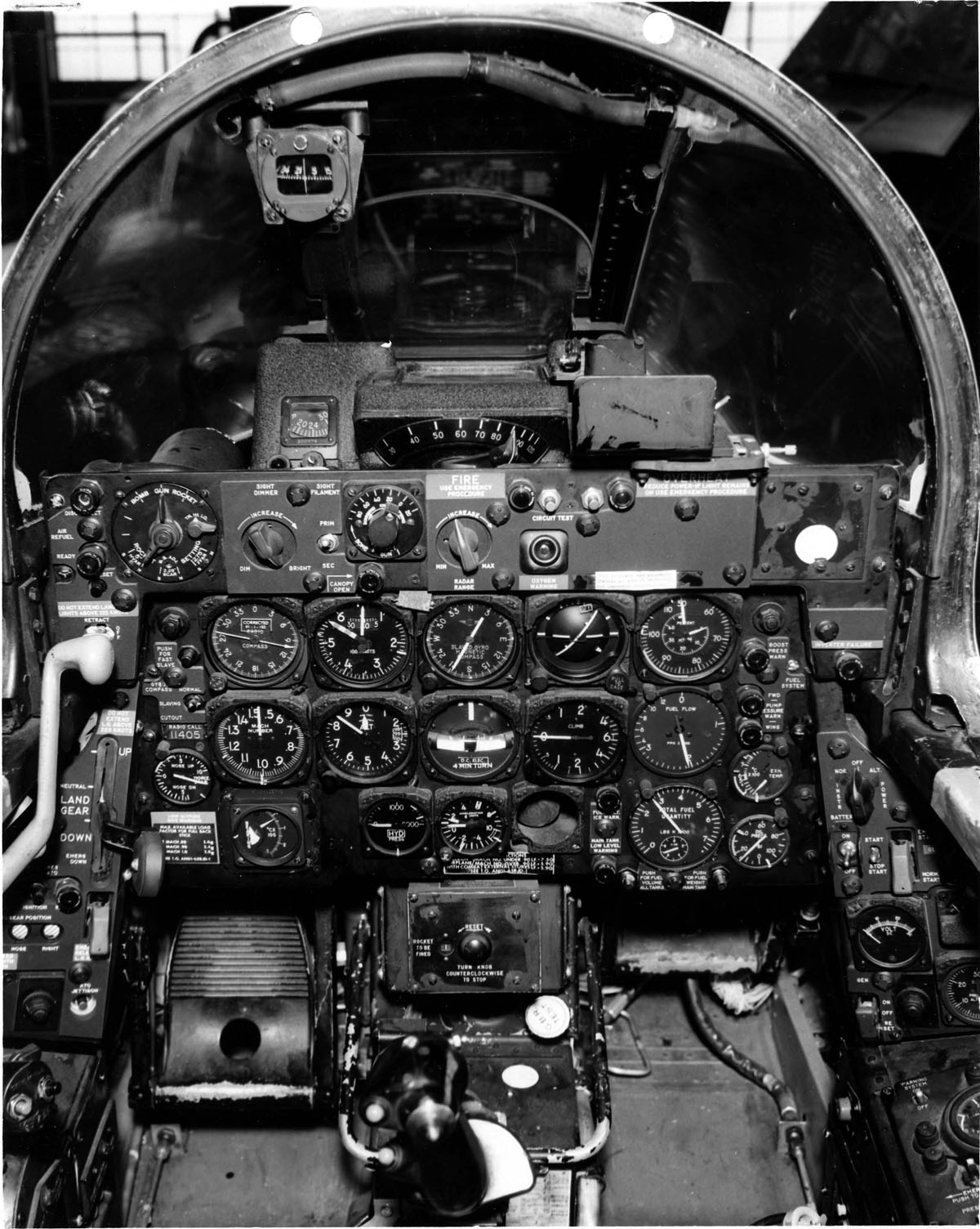 Republic F-84F Cockpit, front instrument panel.